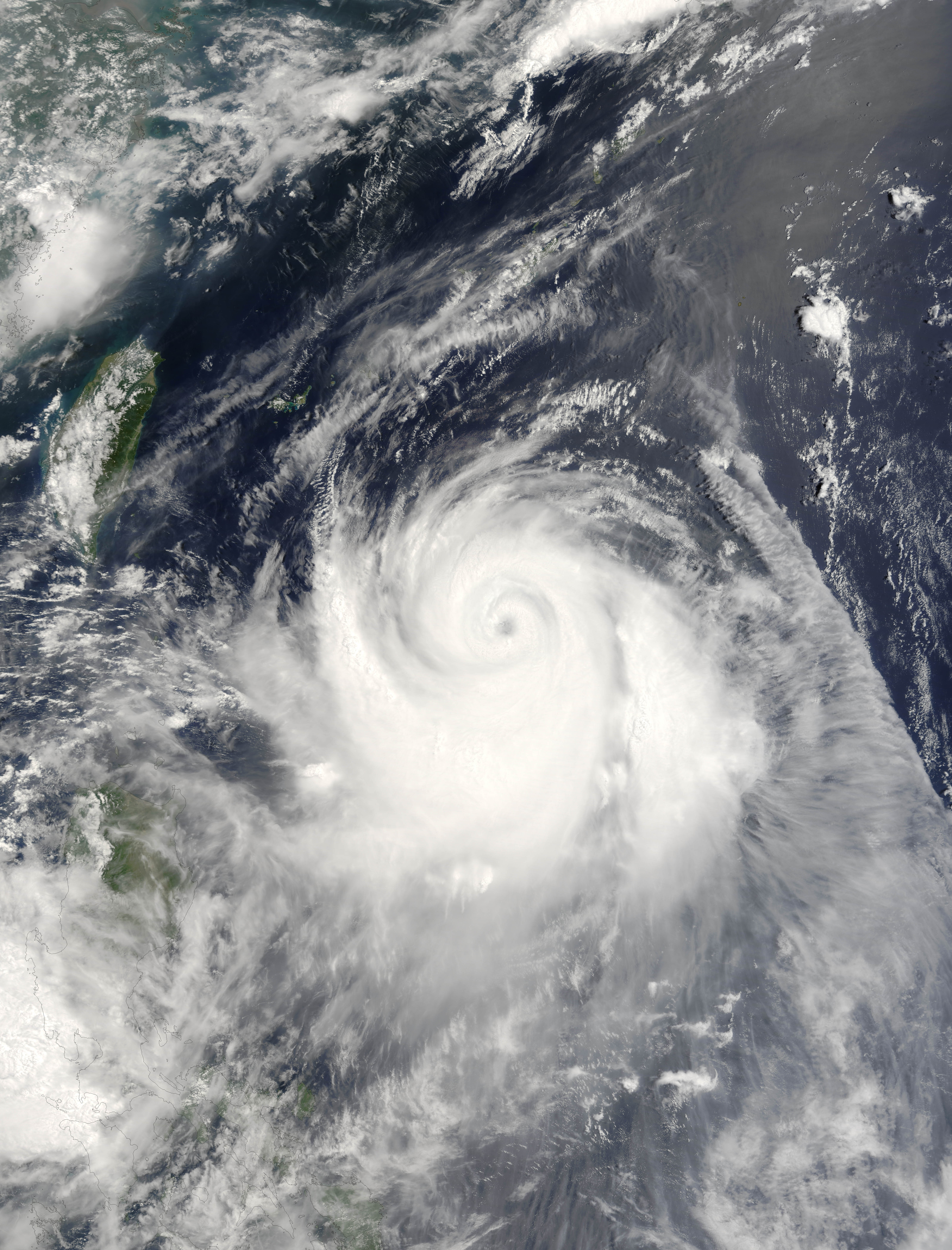 On July 7, 2006, Typhoon Ewiniar swirled in the western Pacific Ocean offshore of China, Taiwan, and the Philippines. The storm began brewing in the area around the Caroline Islands (southeast of the area shown here) on June 29 and moved northwest, roughly parallel with the Philippines, over the next few days. According to the forecast from the Joint Typhoon Warning Center on July 7, 2006, at 18:00 Zulu time (2:00 a.m., July 8, local time in Manila), the storm had sustained winds of 85 knots, with gusts up 105 knots (1 knot is about 1.15 miles per hour). The projected path at that time was for the storm to continue northwest past Taiwan and then to veer northeast to cross the Korean Peninsula as a tropical storm on July 10. The Moderate Resolution Imaging Spectroradiometer (MODIS) on NASA’s Terra satellite captured this image on July 7, 2006, at 10:10 a.m. local time in Manila (02:10 UTC). In this image, the eye of the storm is approximately 700 kilometers away from Taiwan. The outer edges of the typhoon mingle with other cloud cover in the area, and the typhoon throws off long tendrils toward the south and east. Along the eastern edge of the storm is a sharp cloud boundary. The high-resolution image provided above is provided at the full MODIS spatial resolution (level of detail) of 250 meters per pixel. The MODIS Rapid Response System provides this image at additional resolutions.